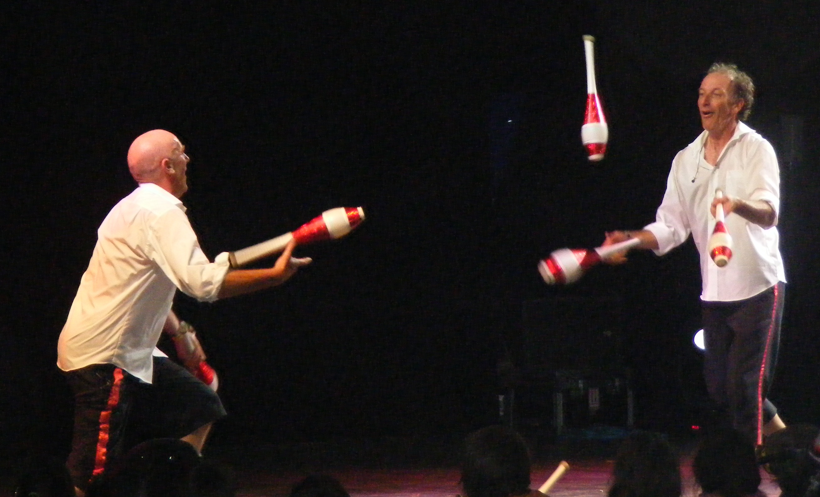 Haggis and Charlie juggling in the Circus Big Top at Glastonbury Festival 2009